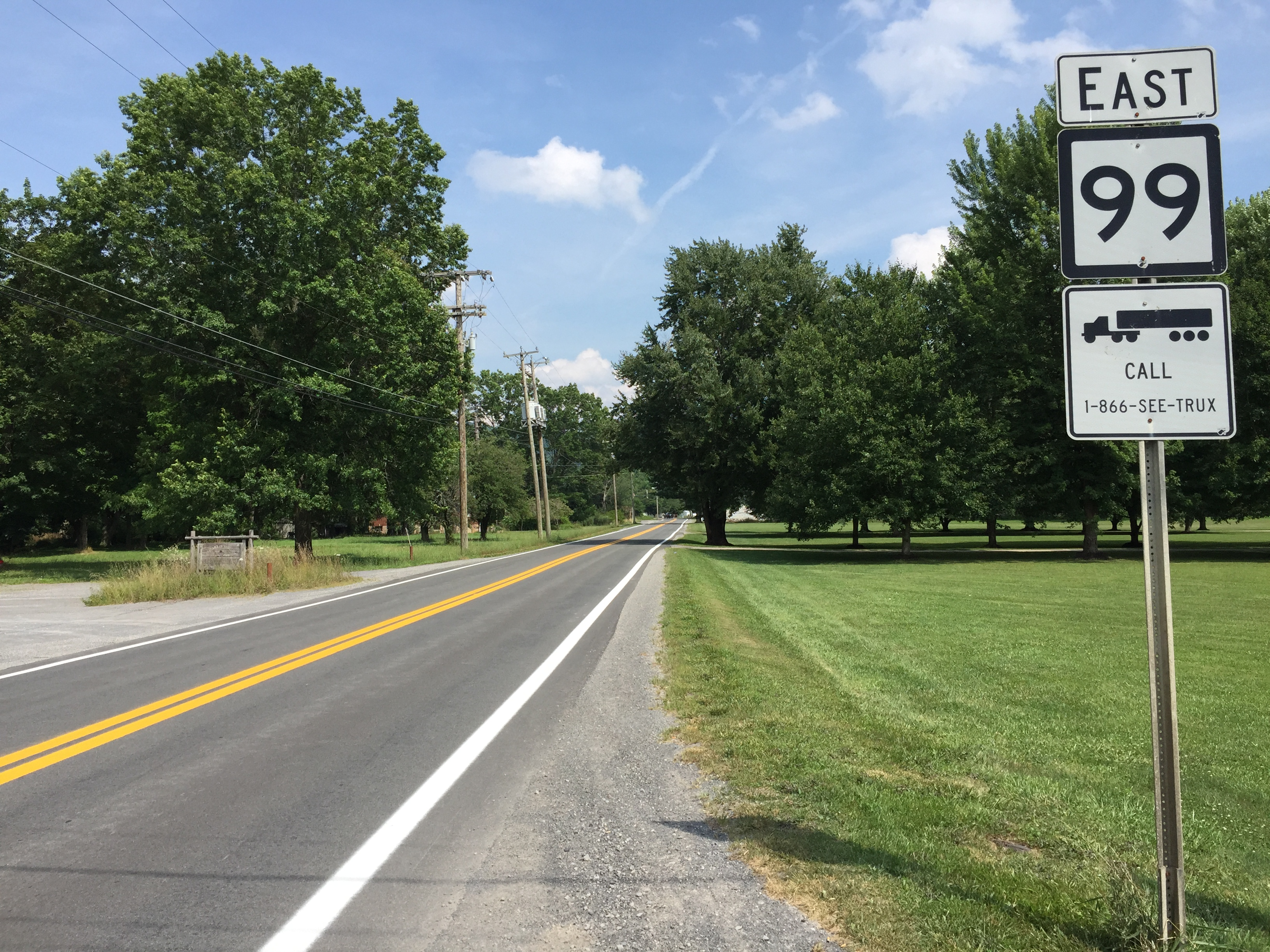 View east along West Virginia State Route 99 (Bolt Road) at Raven Cliff Road (Raleigh County Route 1/5) in Bolt, Raleigh County, West Virginia